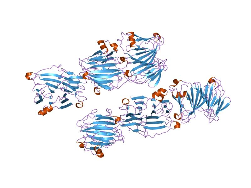 Cartoon representation of the molecular structure of protein registered with 1ywk code.